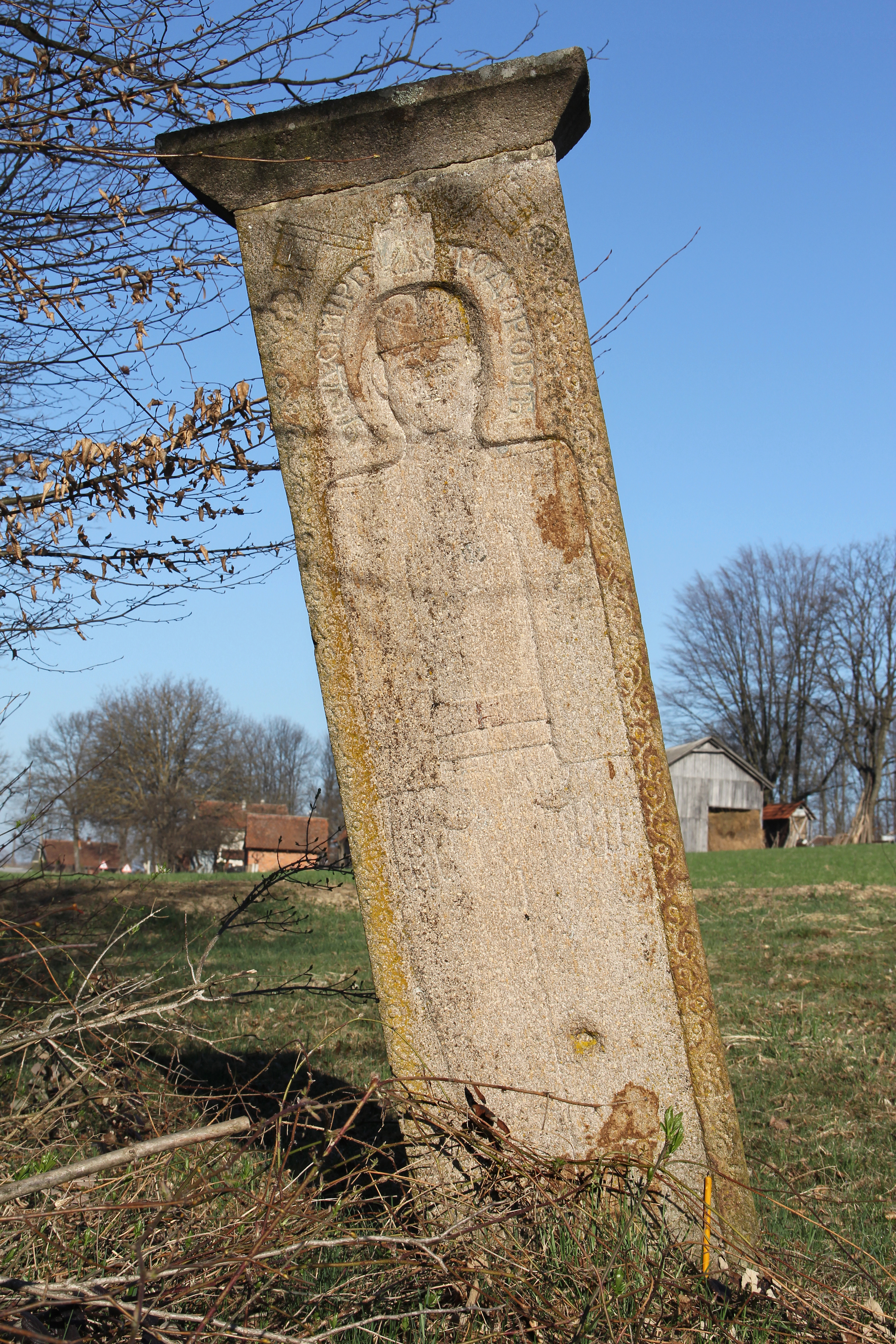 Roadside tombstone erected in memory of Cedomir Todorovic from the village of Grabovica. It is located on Rapaj hill near Gornji Milanovac, Serbia.